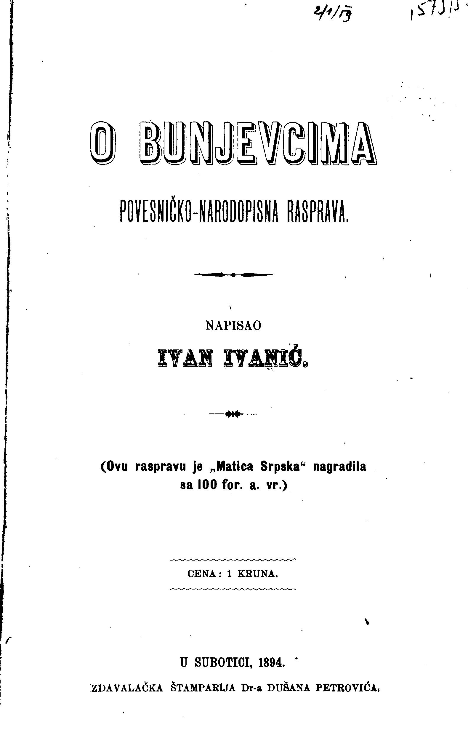 The title page of Ivan Ivanić, O Bunjevcima. Povesničko-narodopisna rasprava, Subotica 1894.